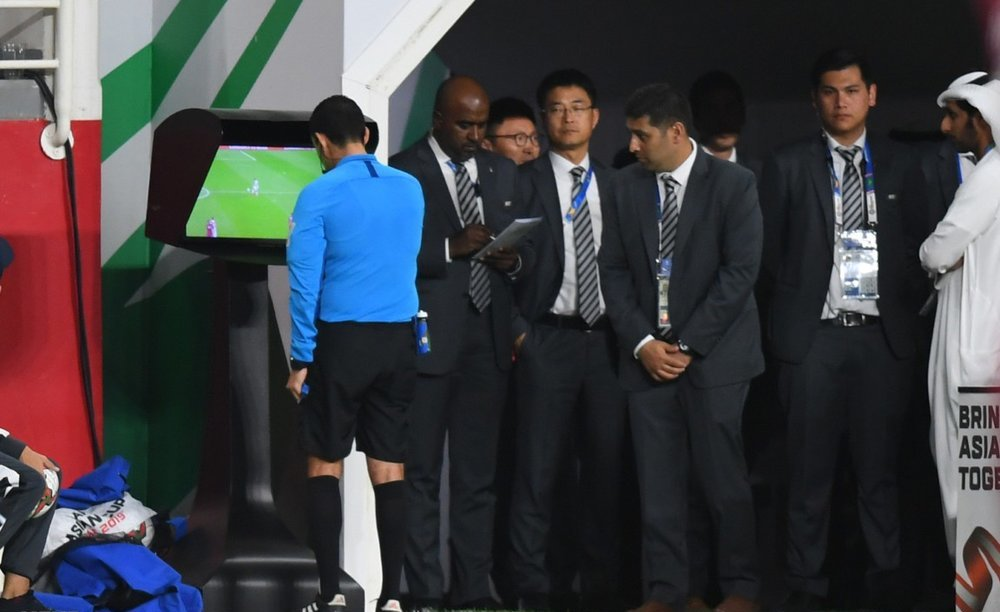 Qatar-United Arab Emirates 2019 AFC Asian Cup semi-final match